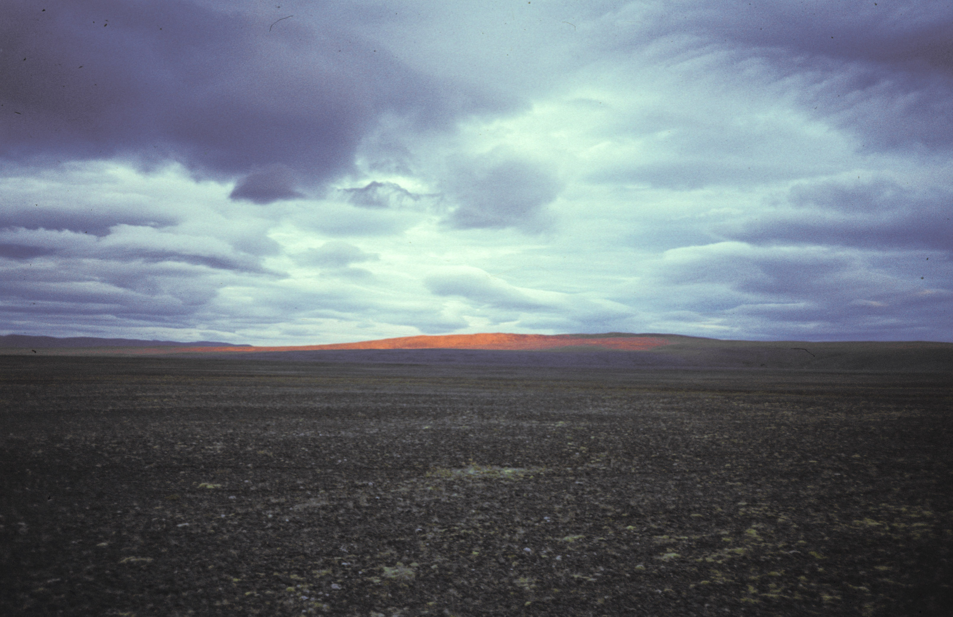 Iceland